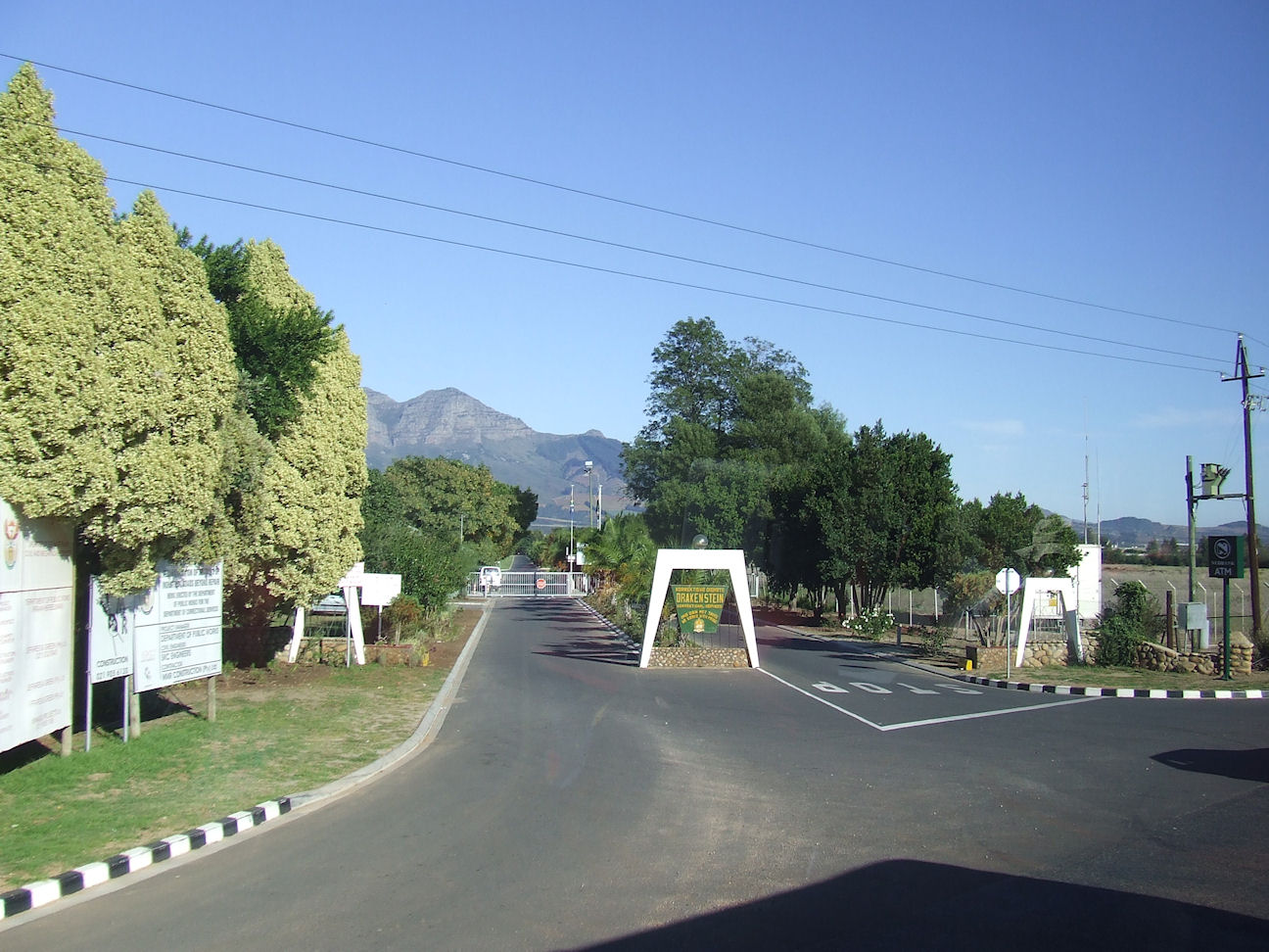 The entrance to Drakenstein Correctional Centre, Paarl, Western Cape, South Africa. Nelson Mandela spent the last years of his captivity here.